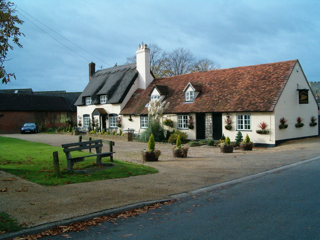 The Old Swan The Old Swan, Astwood.